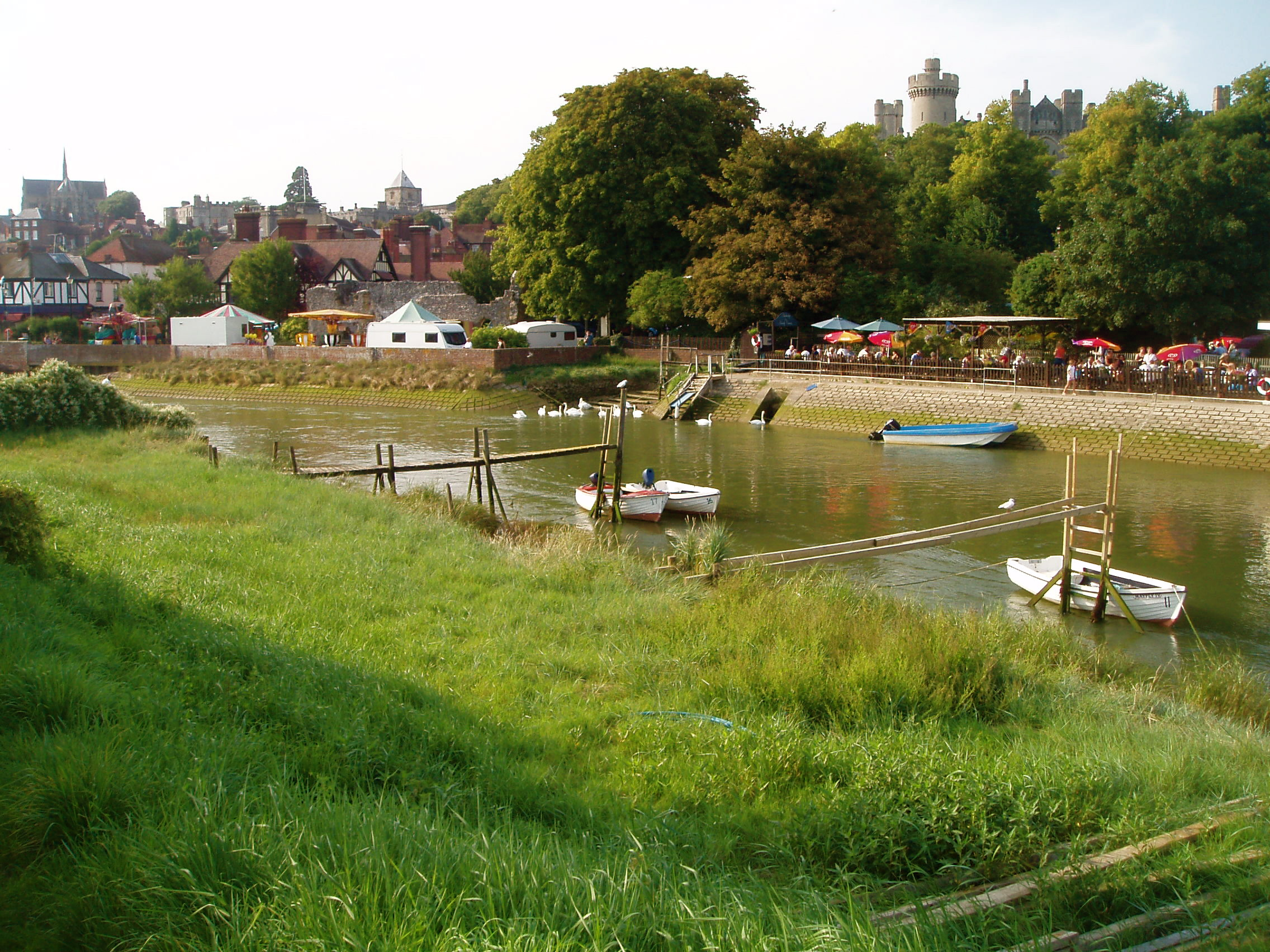 Arundel, West Sussex. Image shows the River Arun, Arundel Cathedral, St. Nicholas Church (the white roof of the bell tower between the Cathedral and Castle) and Arundel Castle.